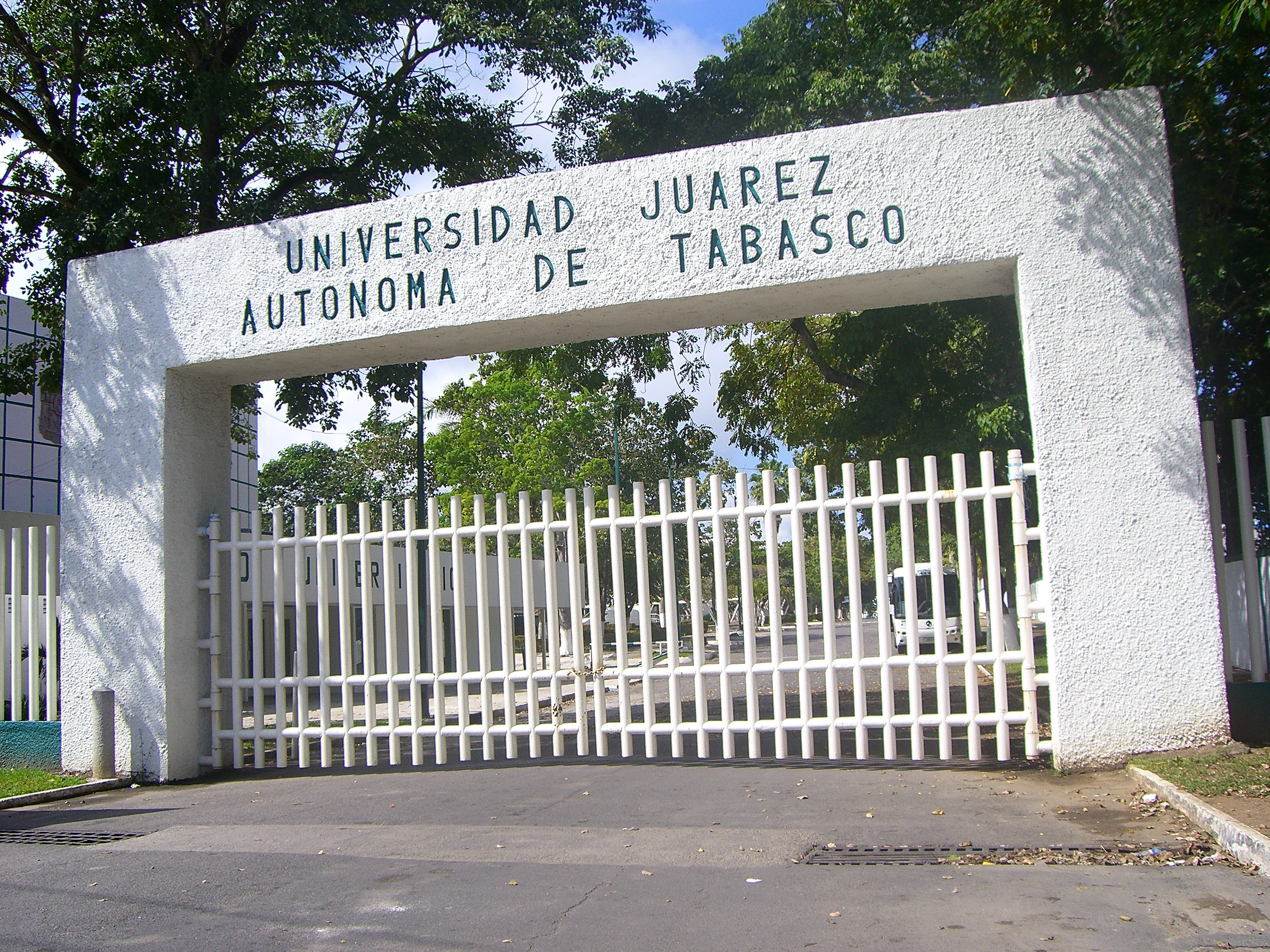 Universidad Juarez Autonoma de Tabasco